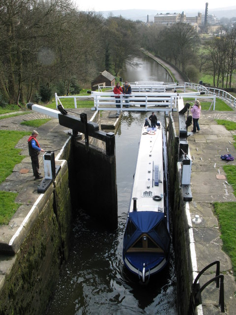 Bingley 5-rise Locks A narrowboat ascending the locks, which lift the Leeds-Liverpool Canal almost 60ft over a distance of about 330 feet. The Damart Mill, famous for thermal underwear, can be seen in the distance.